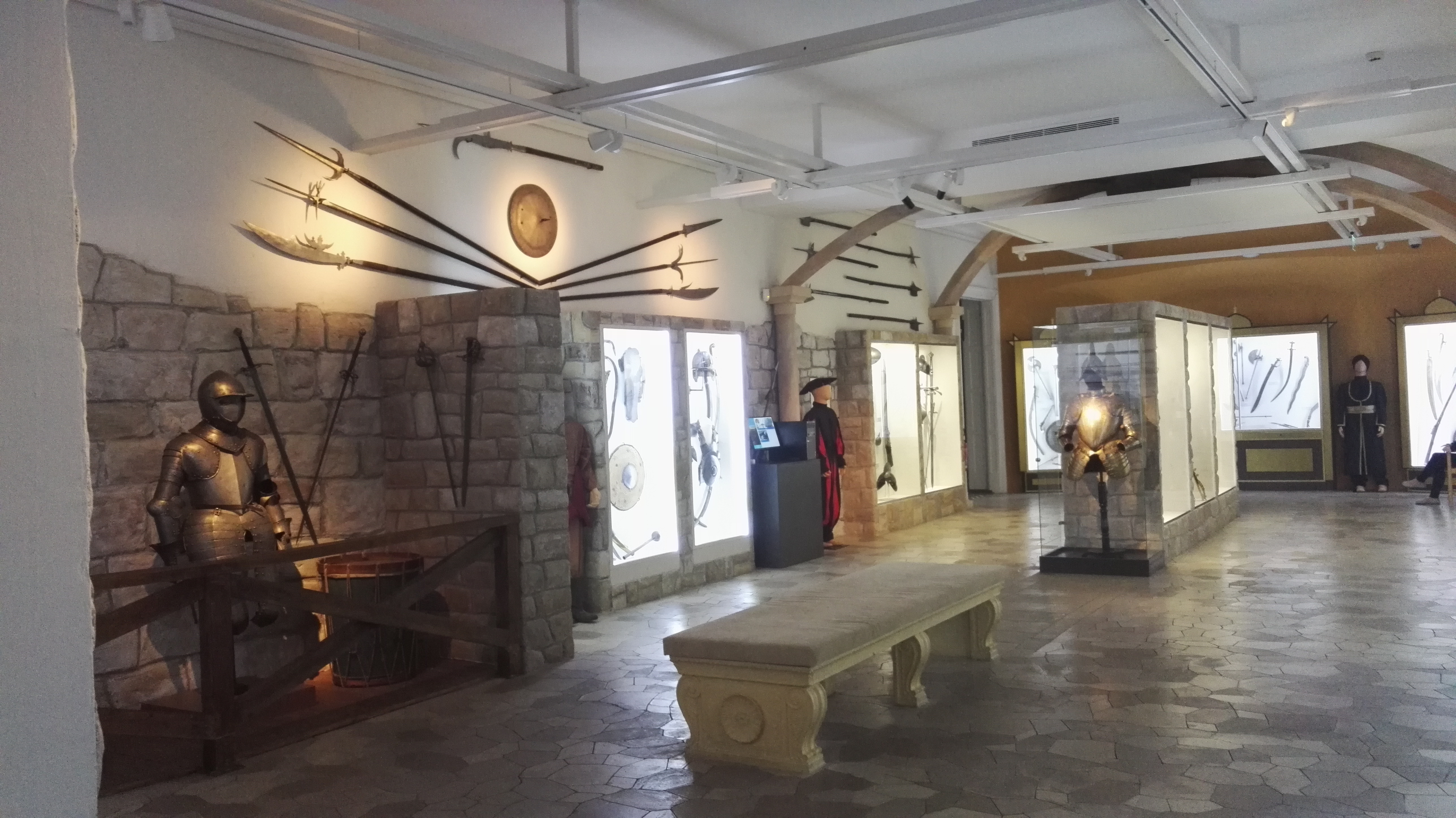 Arms exhibition of the Déri Museum, Debrecen, Hungary.